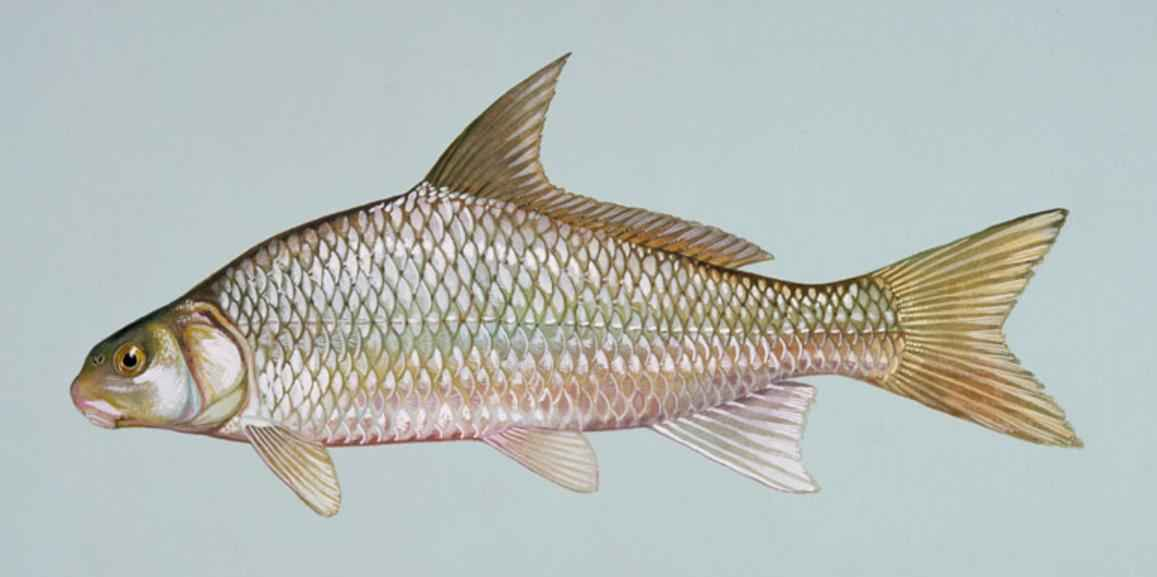 Image title: River carpsucker fish carpoides carpio Image from Public domain images website